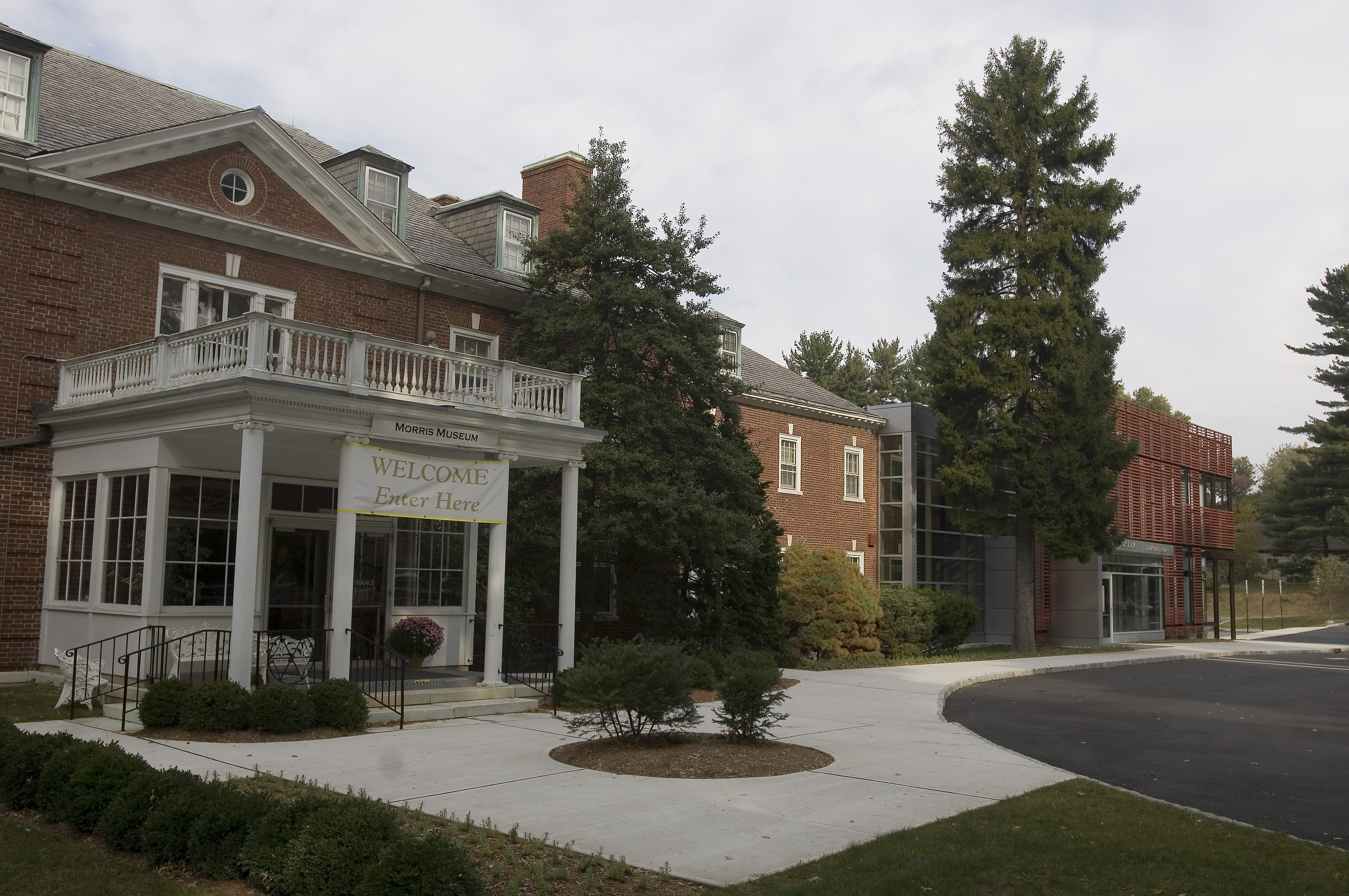 Exterior of Morris Museum, New Jersey.